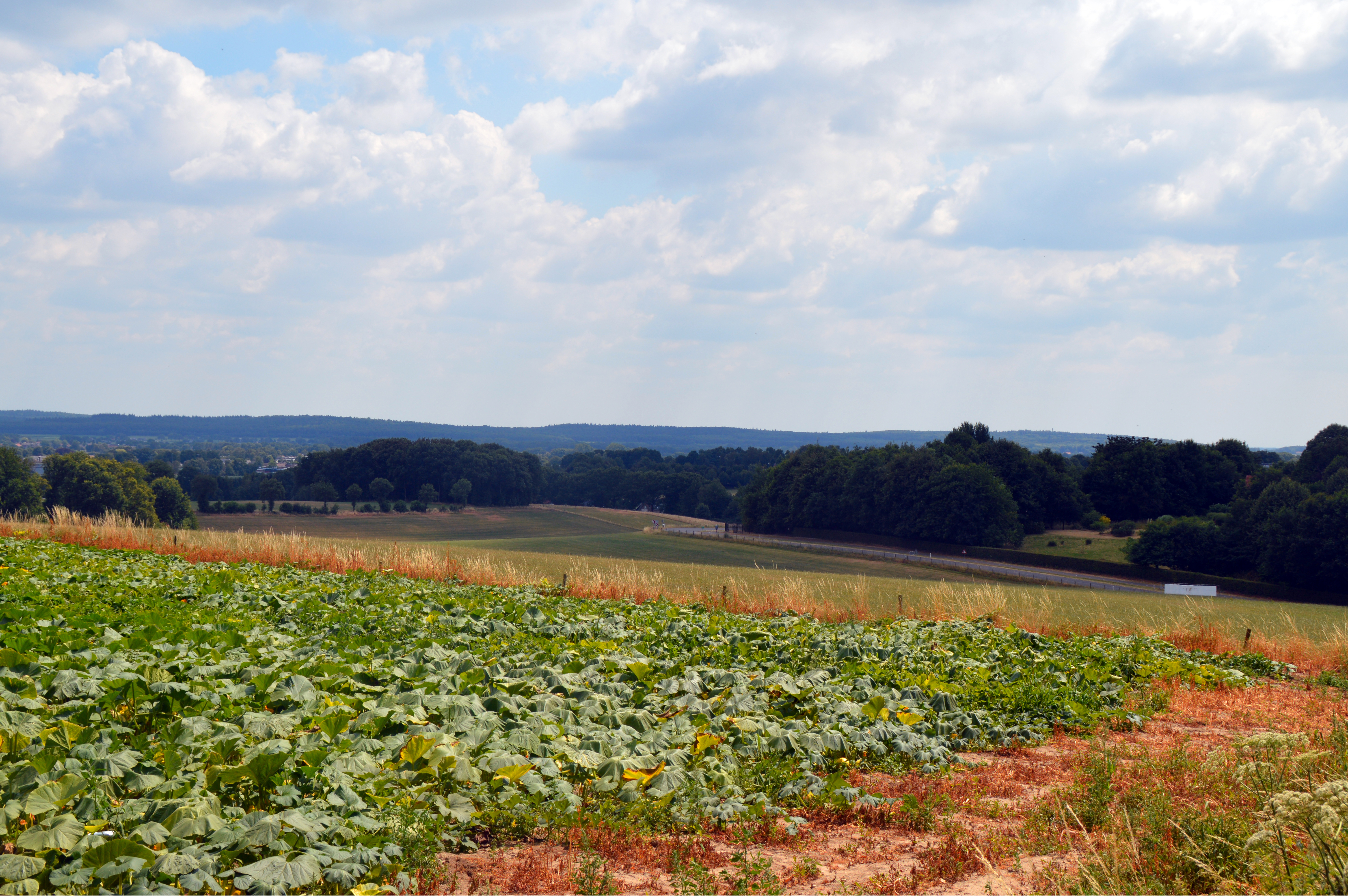 Zevenheuvelenweg Groesbeek, Rijk van Nijmegen, Provincial road 841